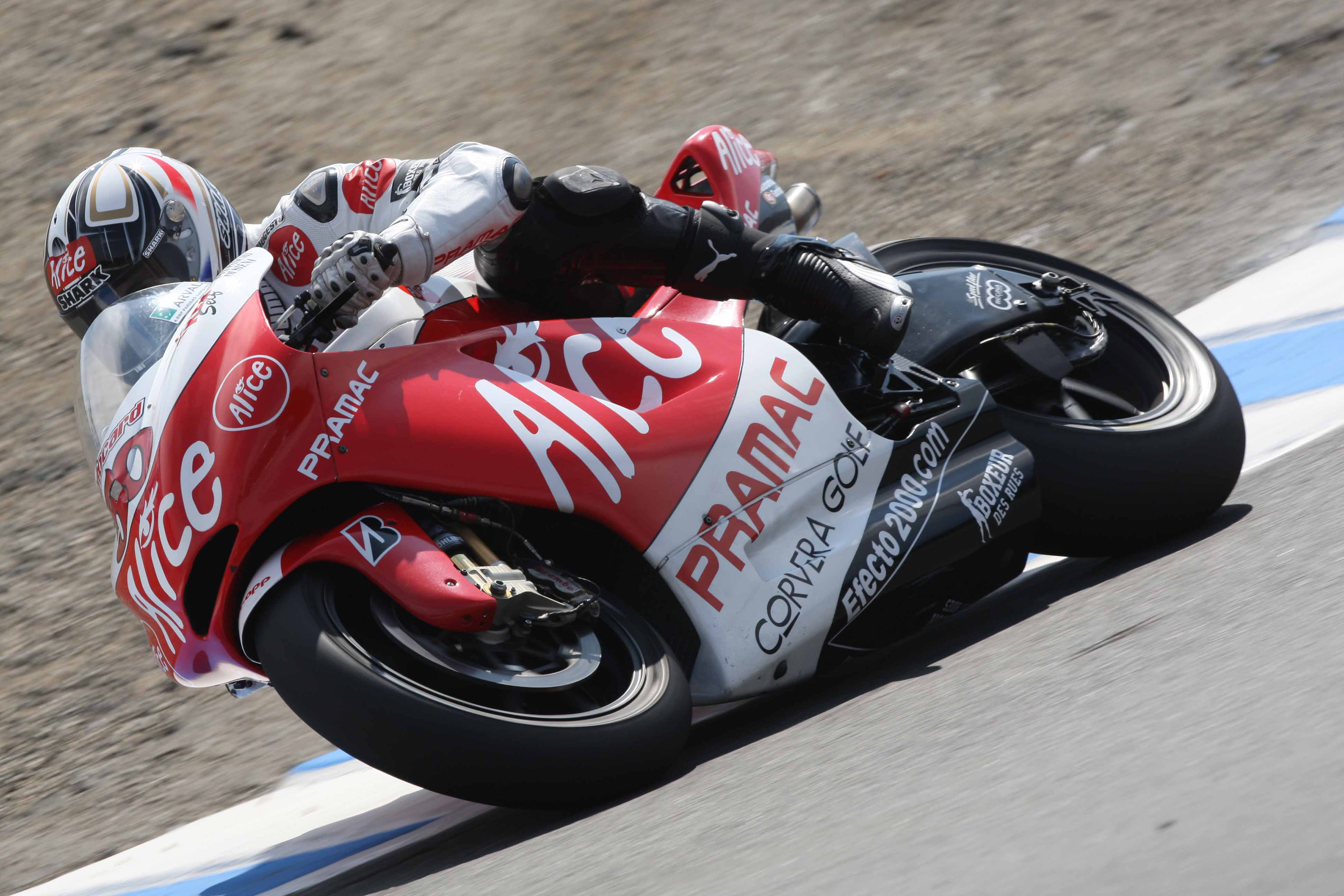 Sylvain Guintoli, riding for the Alice Team. In the "Corkscrew" at the USGP at Laguna Seca, 2008.